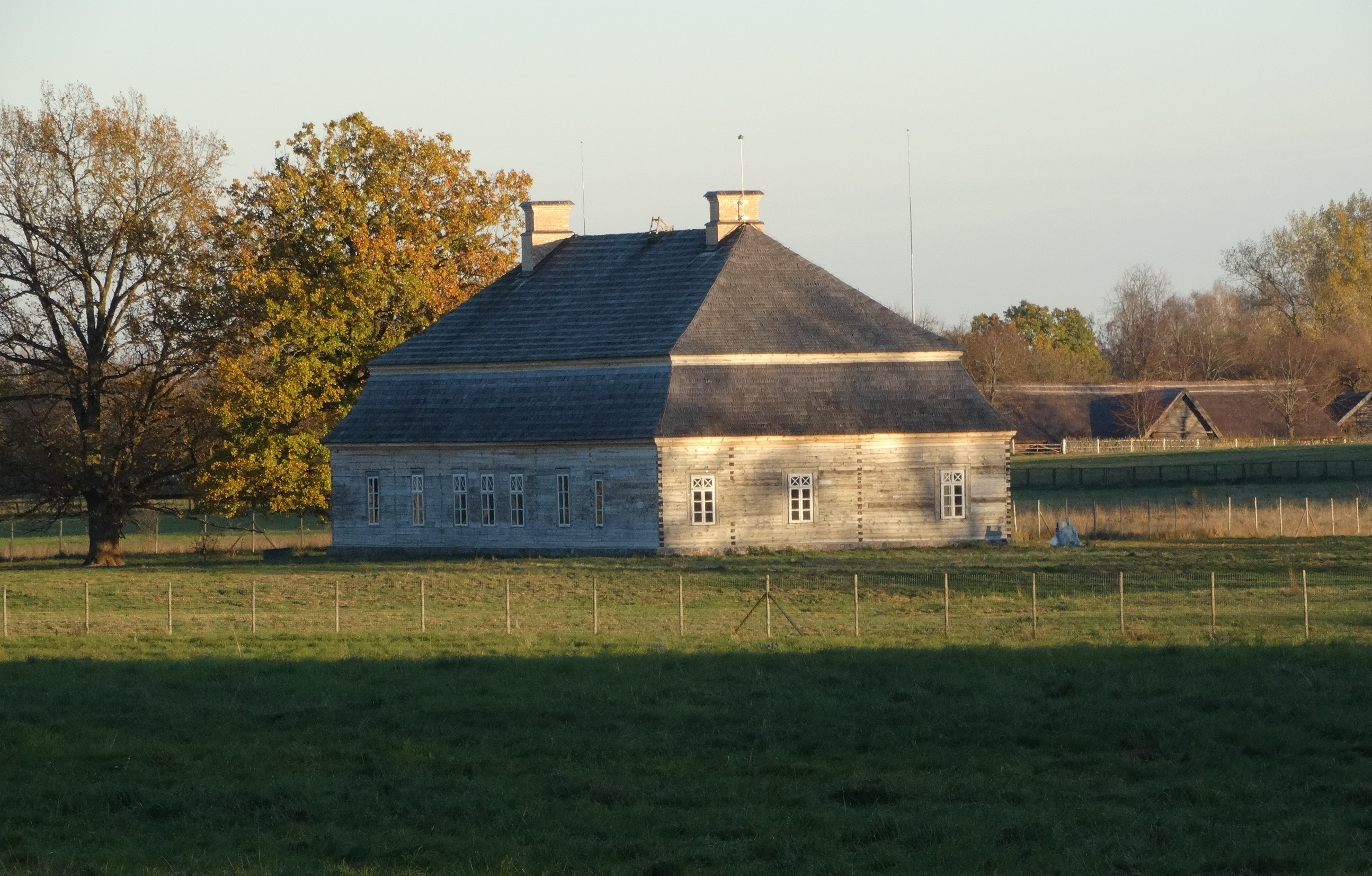 Manor Aristavėlė, Lithuania